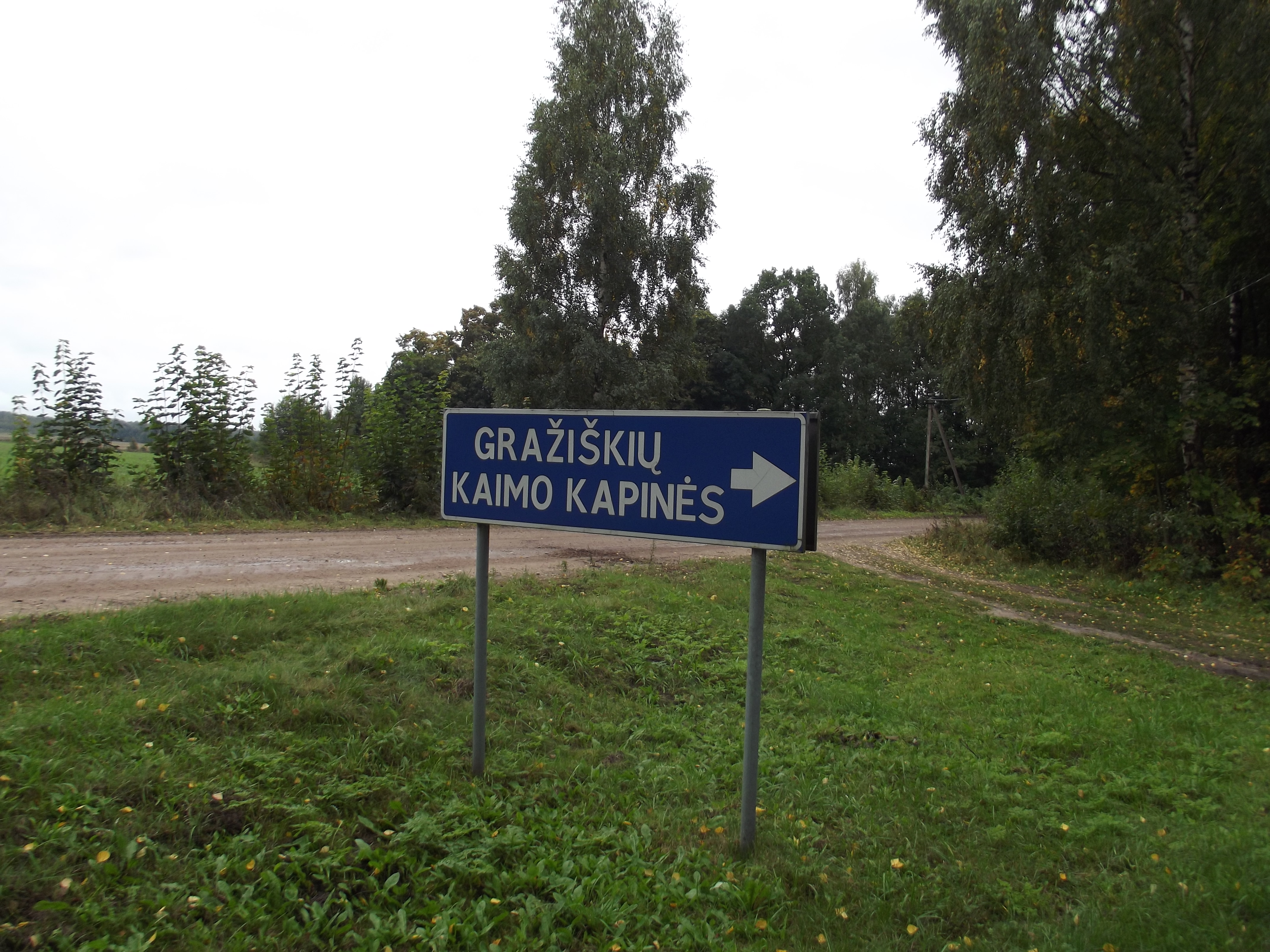 Gražiškiai (Barzdai), Šakiai District, Lithuania